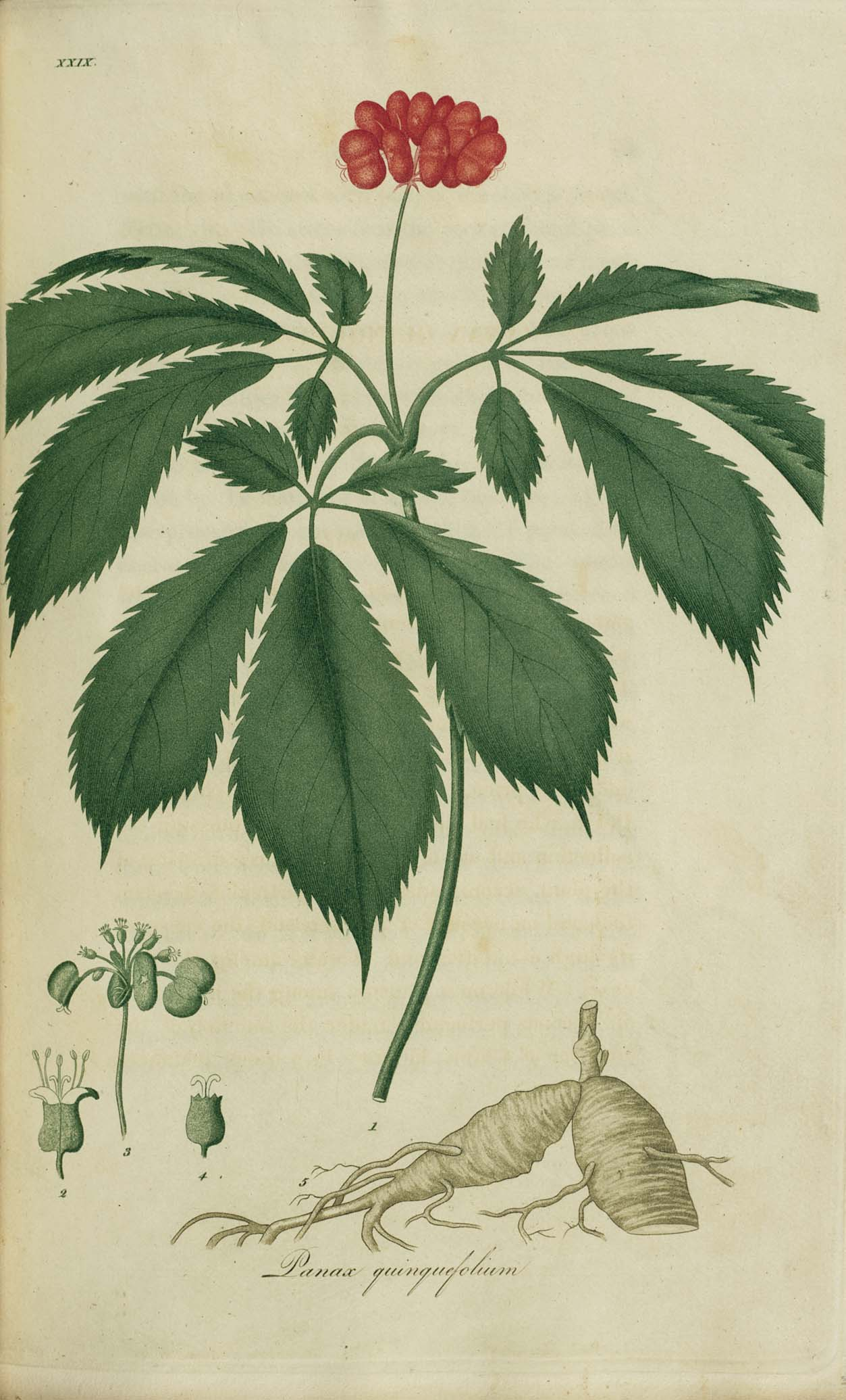 Plate XXIV To view the entire book, please visit American Medical Botany.